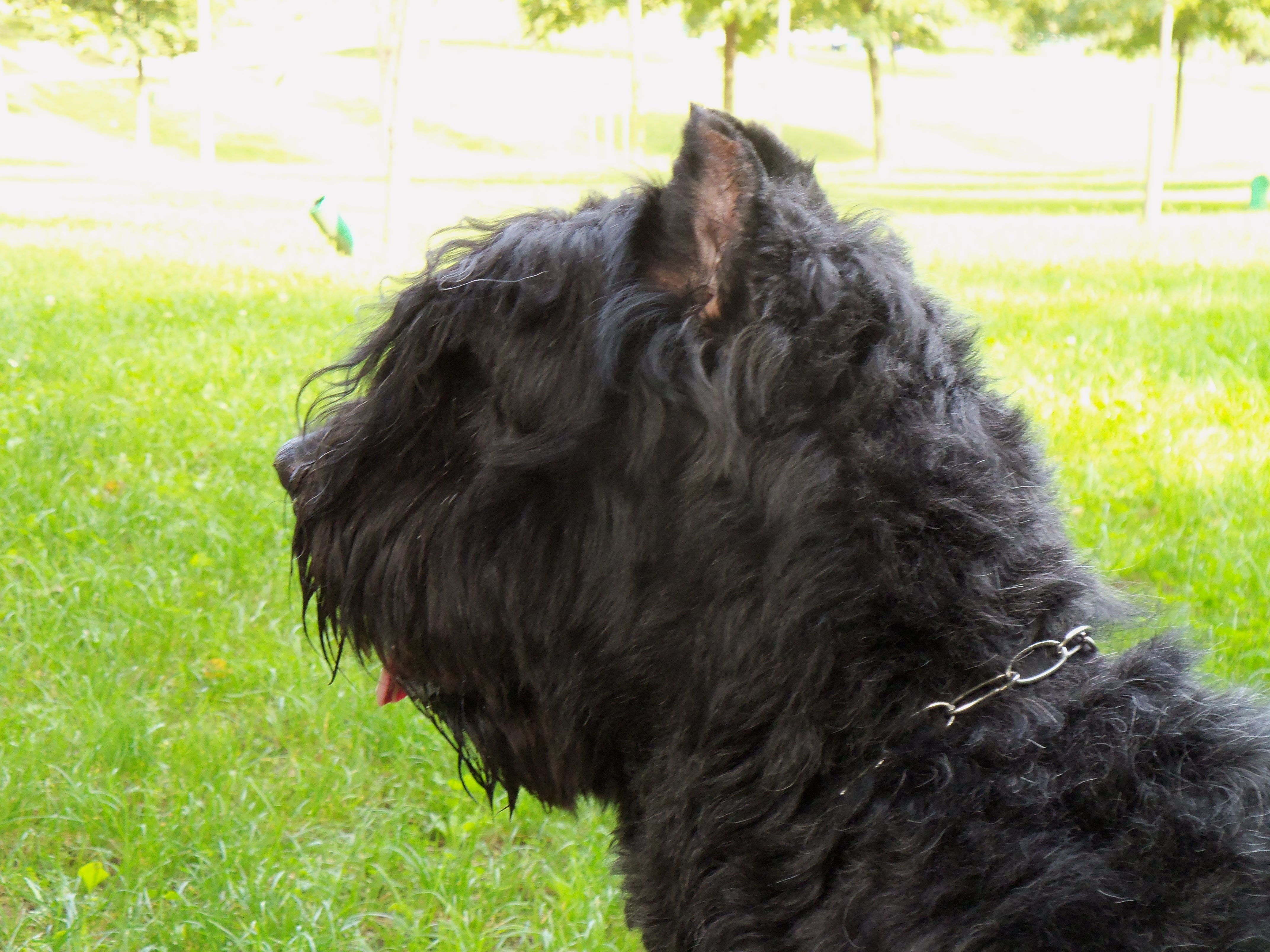 Cow Shepdog, Bouvier des Flandres, Spyke dei "Grandi Saggi"